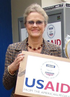 Robin Raphel delivering USAID in Islamabad